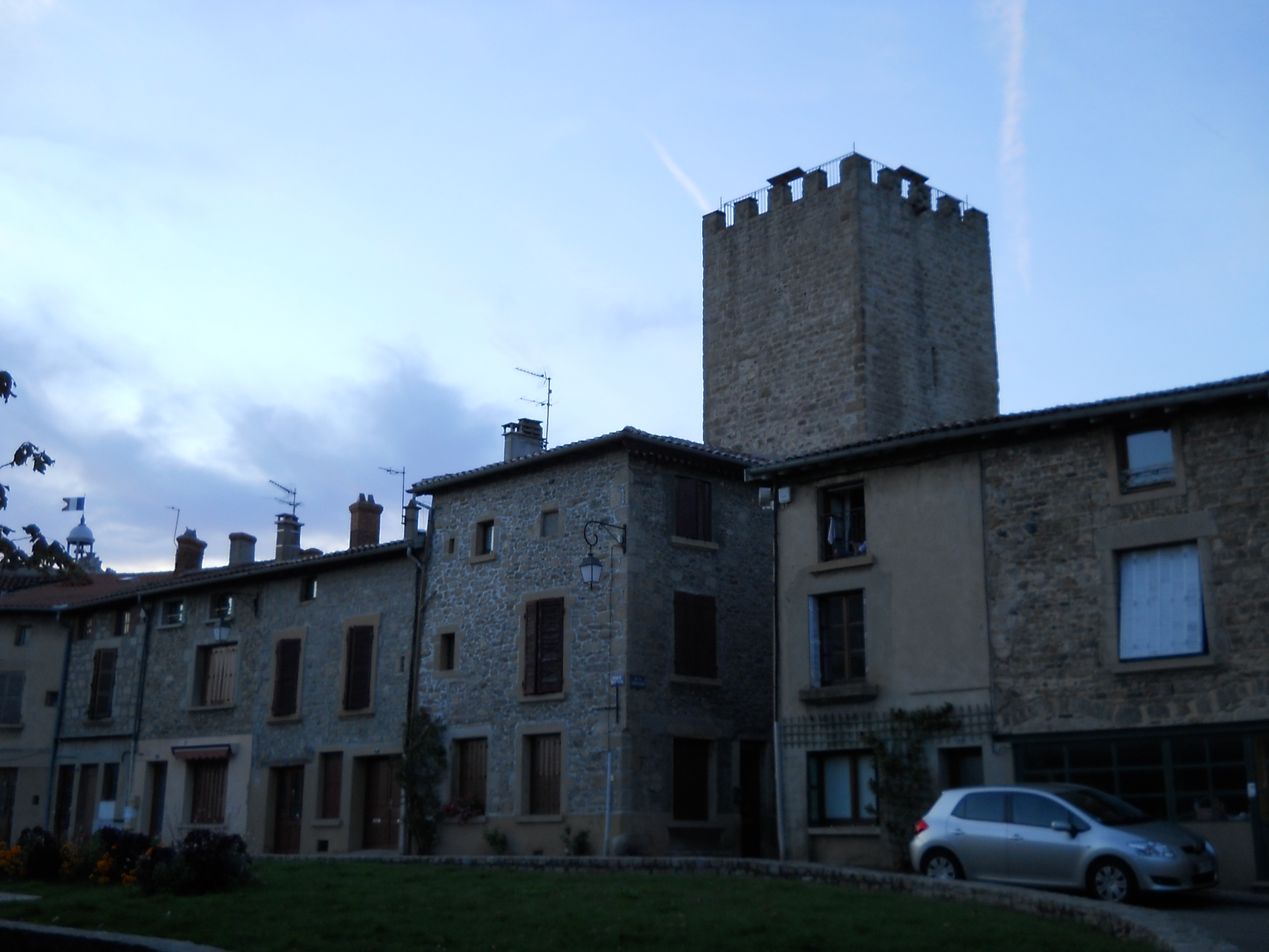 "Dîme" tower, Mornant, Rhône, France